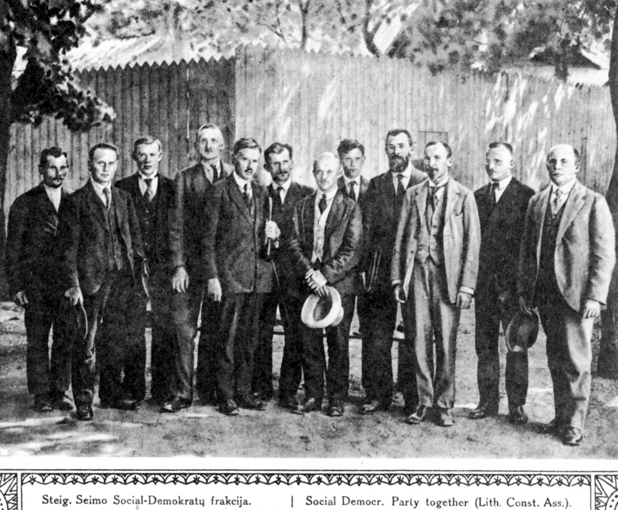 Socialdemocrats, members of Constituent Assembly of LithuaniaLietuvių: Lietuvos Steigiamojo Seimo atstovai nuo Lietuvos socialdemokratų partijos: Jurgis Daukšys, Vladas Požela, Pranas Šemiotas, Jeronimas Plečkaitis, Steponas Kairys, Vladas Sirutavičius, Antanas Purėnas, Jonas Pakalka, Kazys Lekeckas, Vincas Čepinskis, Stasys Digrys, Bronislovas Cirtautas